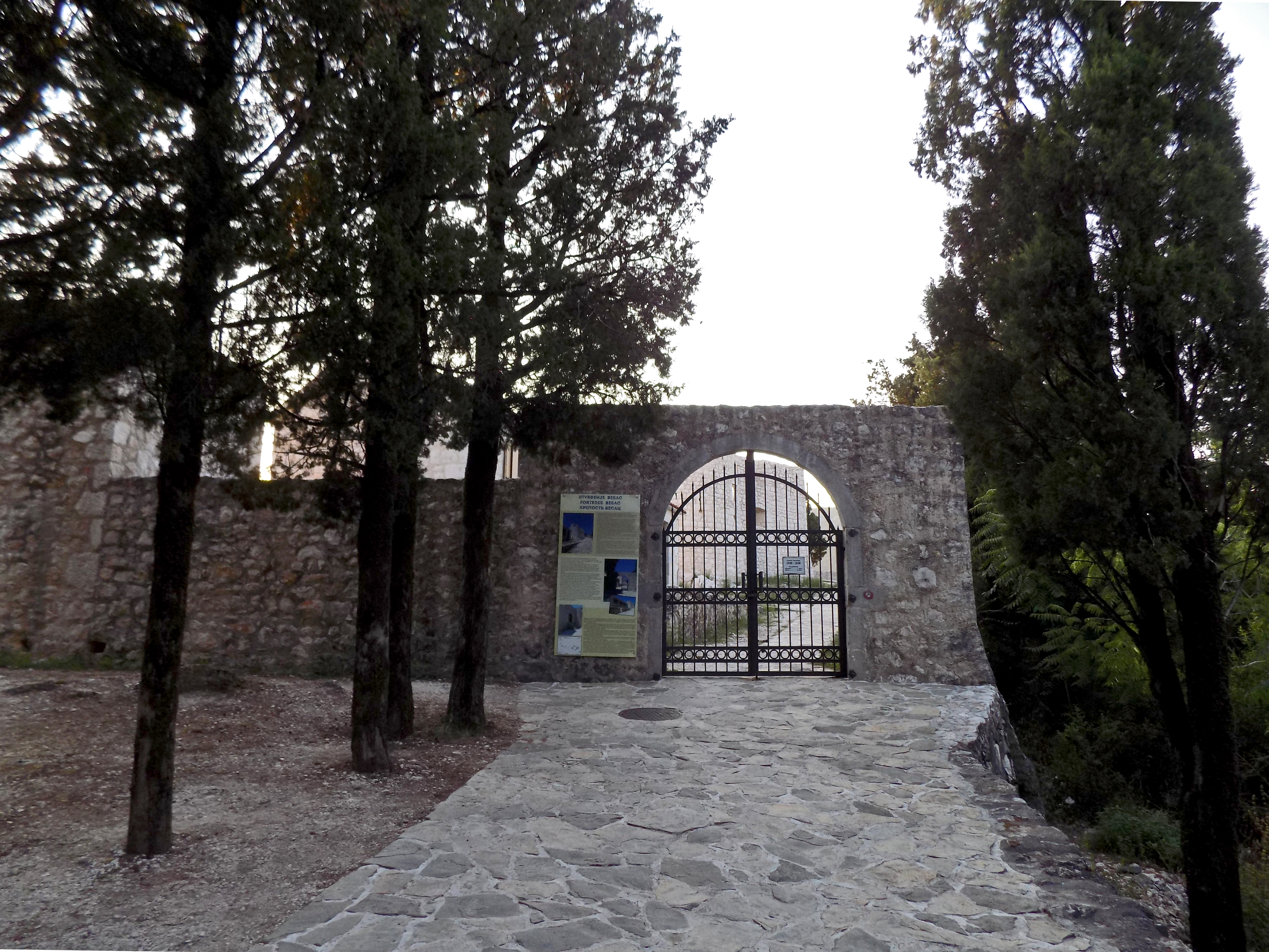 Fort Besac, Virpazar, Montenegro